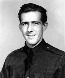 Official photo of Thomas B. McGuire Jr. as an Aviation Cadet. (U.S. Air Force photo)